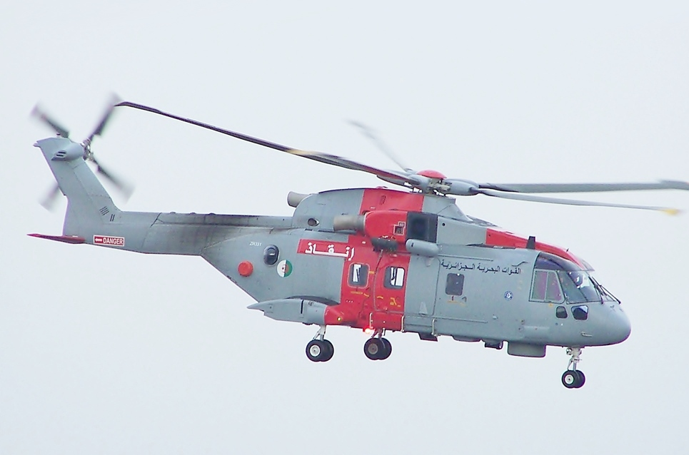 ZR331 AW101 for Algerian Naval Forces at Prestwick